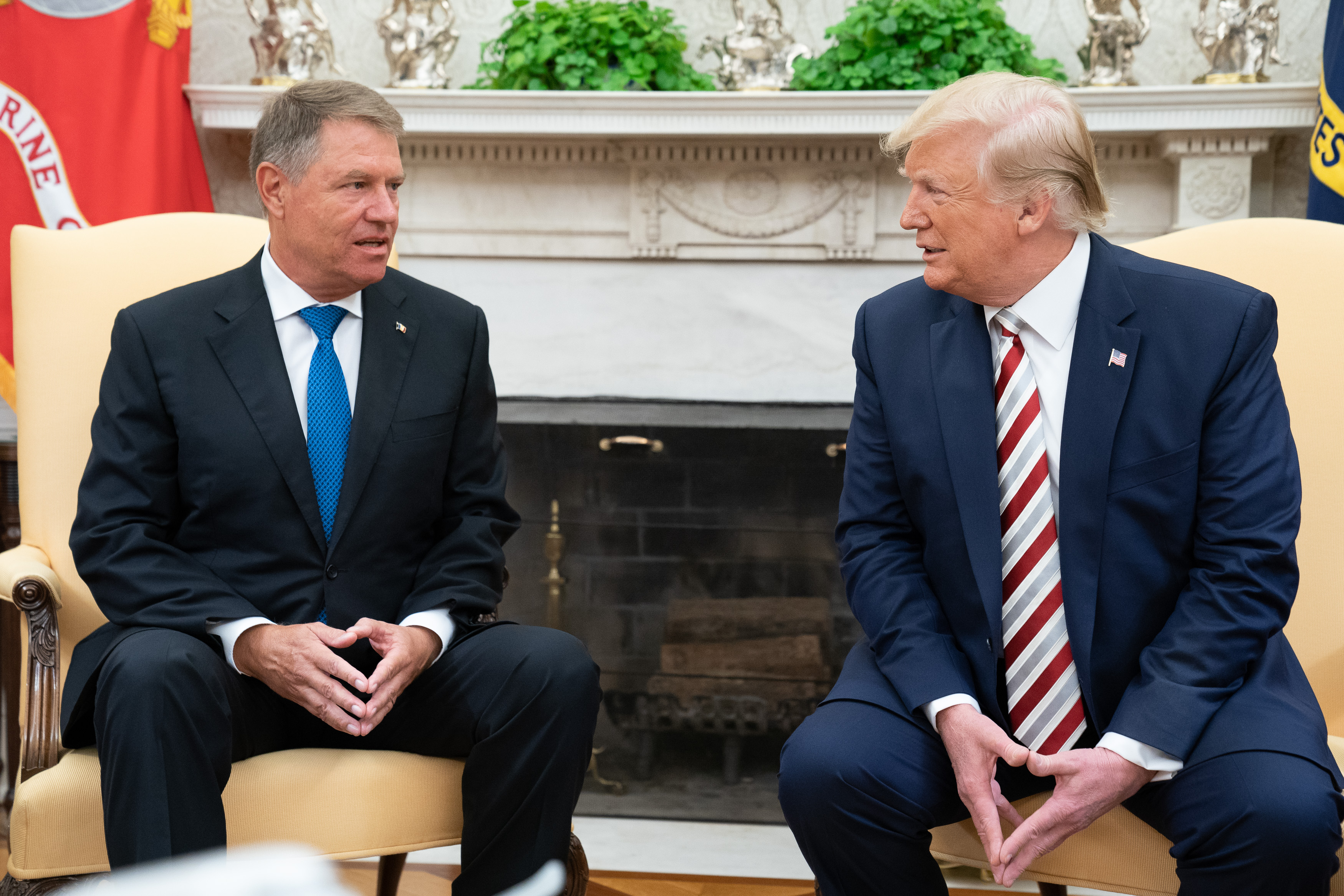 President Donald J. Trump speaks with reporters prior to his bilateral meeting with Romanian President Klaus Iohannis Tuesday, Aug. 20, 2019, in the Oval Office of the White House. (Official White House Photo by Shealah Craighead)